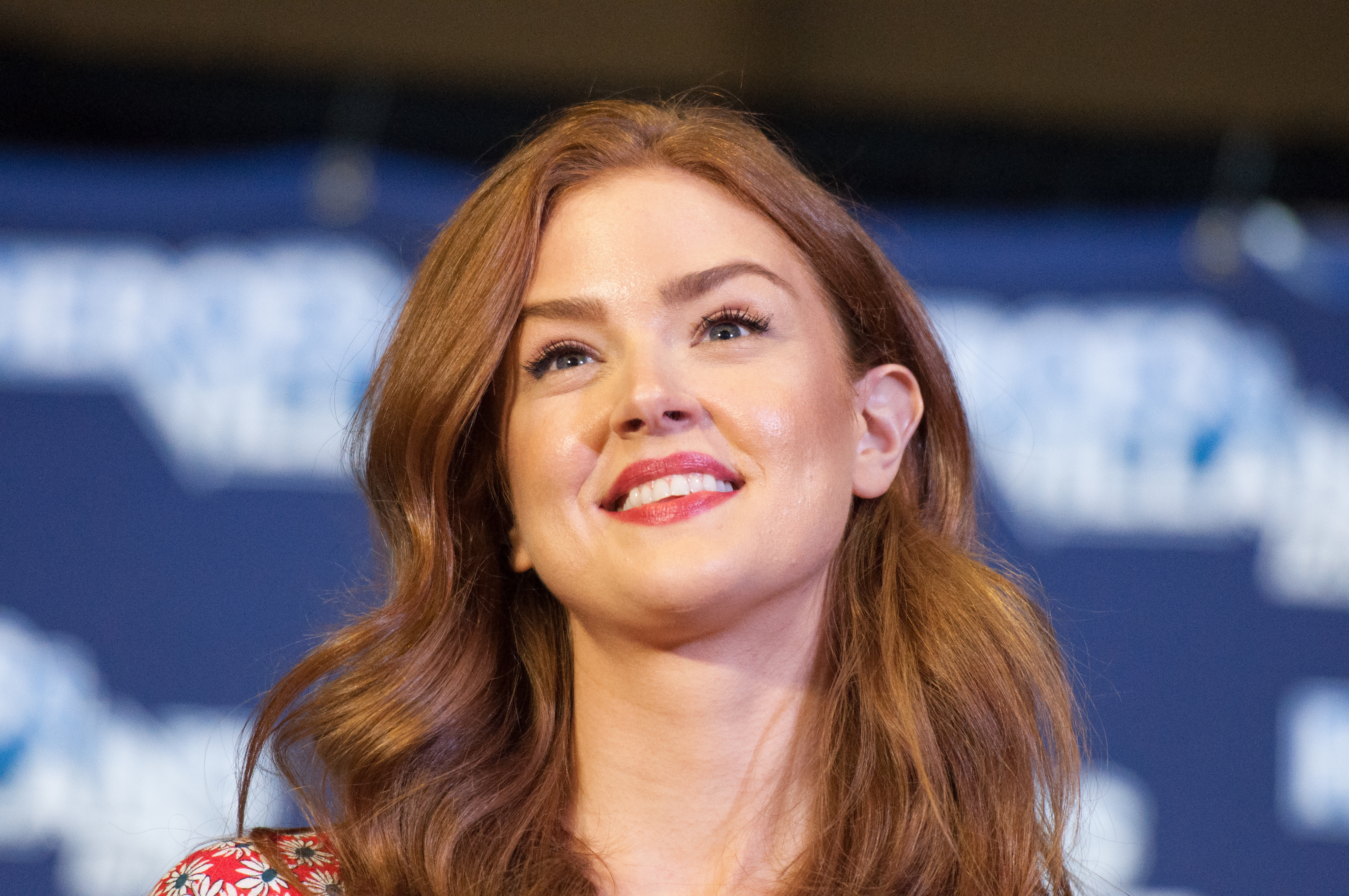 HVFFNash2017Gotham-ALS-33